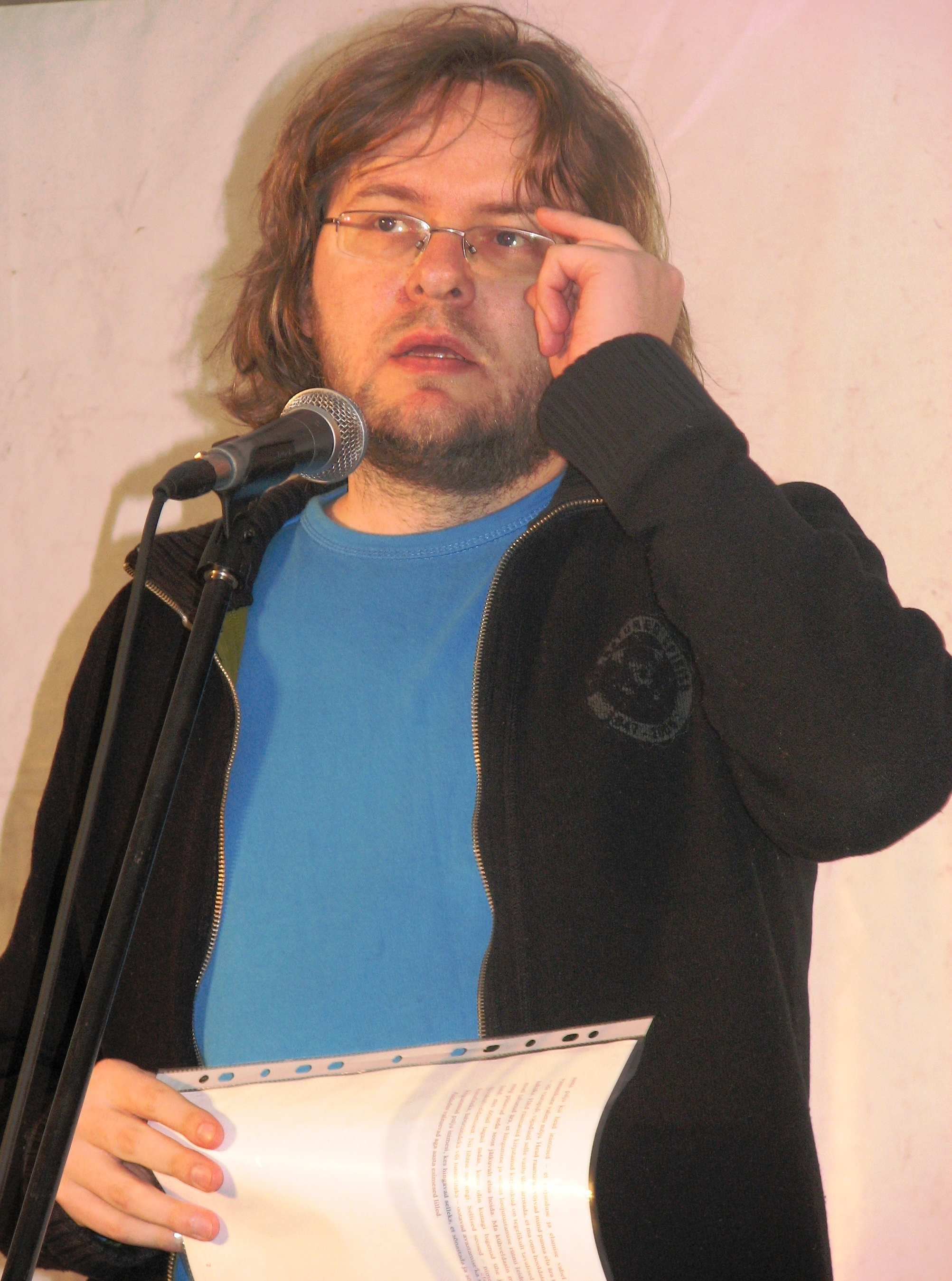 Jan Kaus in Tallinn Literature Festival HeadRead.